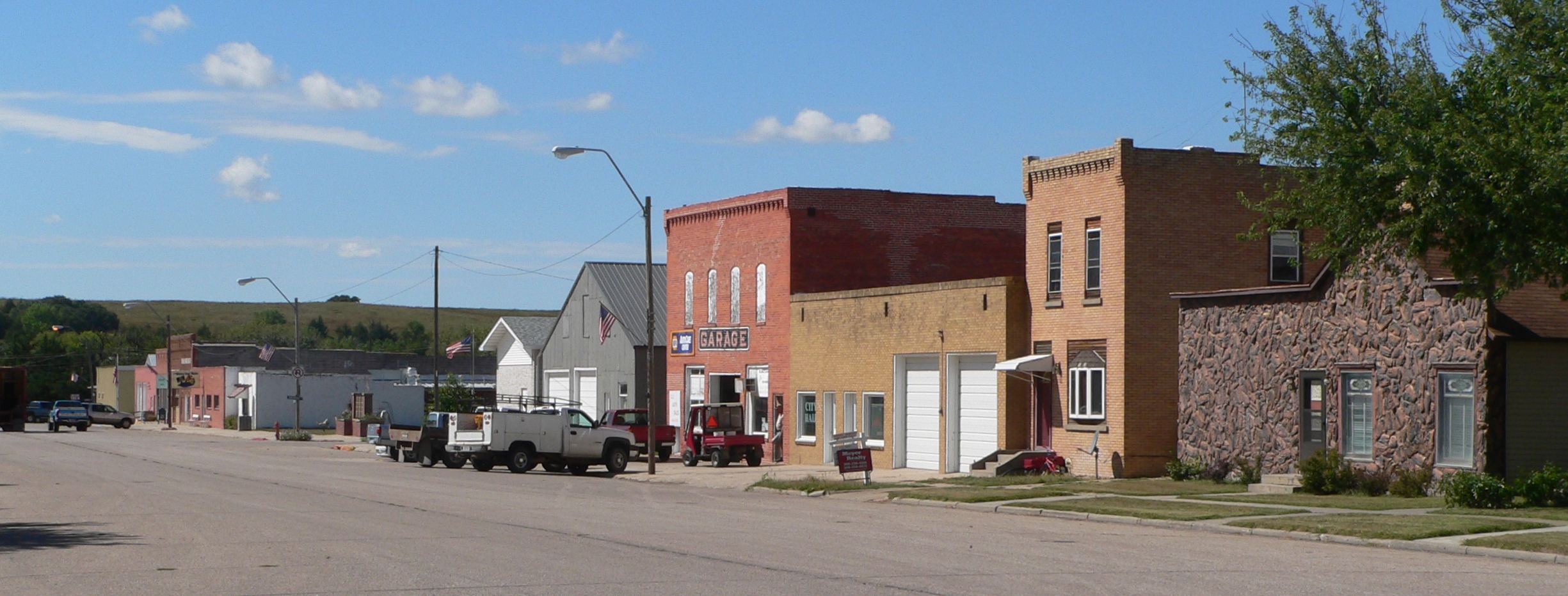 Downtown Wolbach, Nebraska: north side of Center Street, looking northwest from Kempton Street.